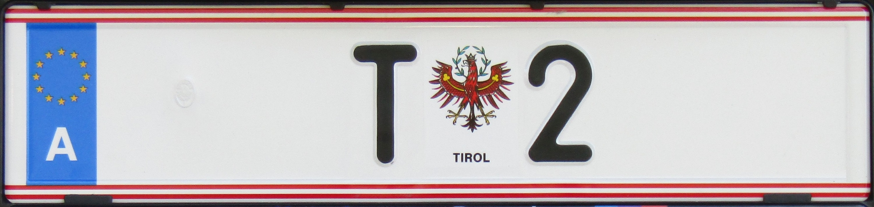 T-2 Tirol Vize-Landeshauptmann in Bregenz